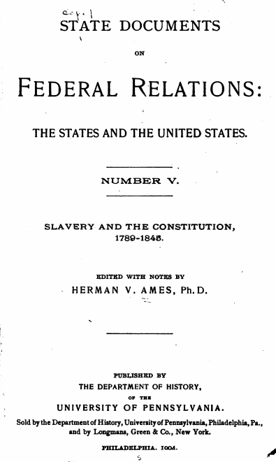 "Slavery and the Constitution, 1789-1845" number 5 - cover page (1904)